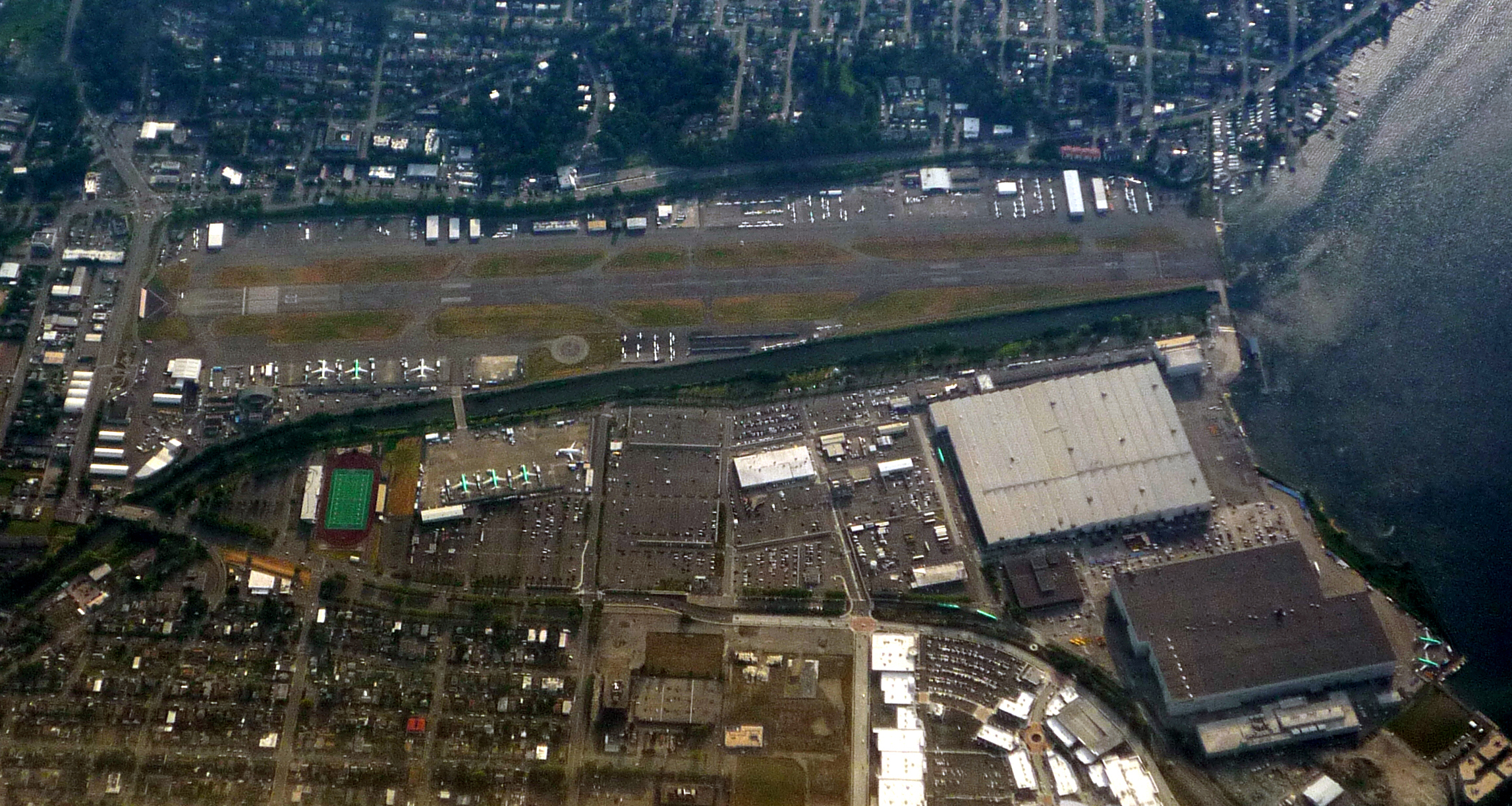 Aerial photo of Renton Municipal Airport and adjacent Boeing Renton Factory (the two large building and associated structures to the below right), Renton, Washington, USA.